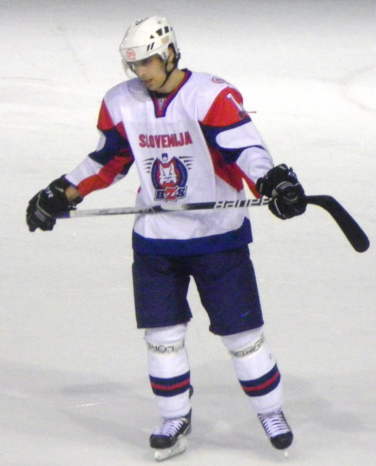 David Rodman, slovenian ice hockey player